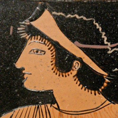 Thetis's face, detail from a scene representing Thetis raped by Peleus. Side A from an Attic red-figure pelike, ca. 510 BC–500 BC.